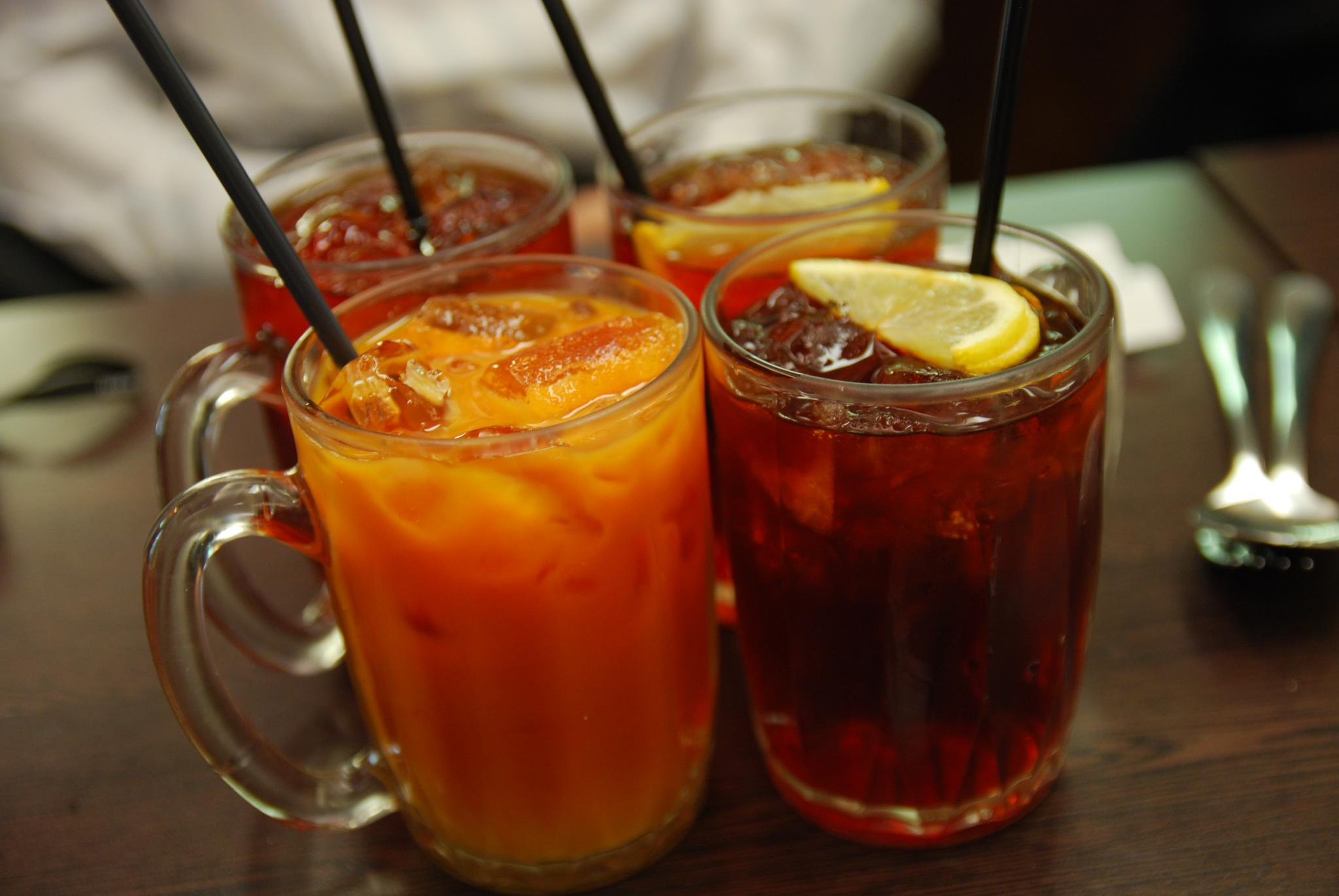 Complimentary drinks from the boss again :) Chilli Cafe (03) 9654 4040 168 Russell St Melbourne VIC 3000